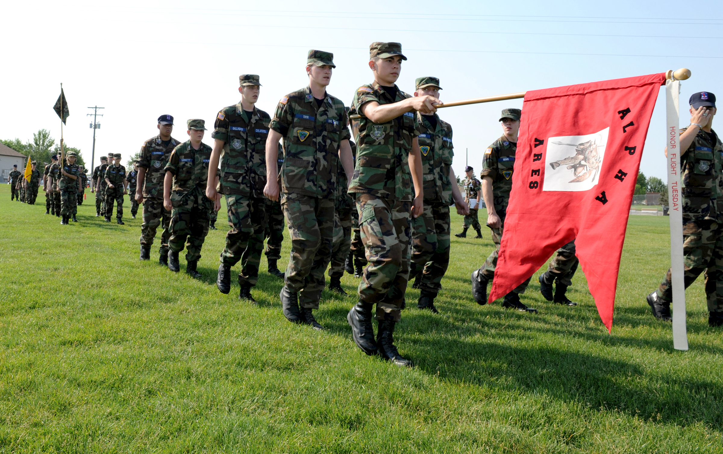 MOUNTAIN HOME AIR FORCE BASE, Idaho - Cadets from the Civil Air Patrol, Rocky Mountain region, practice drill for their pass and review ceremony June 25. The Cadets came from Idaho, Montana, Wyoming and Nevada to attend the Mountain Eagle II Encampment, a week-long basic cadet encampment at Gowen Field Air National Guard Base, Idaho. The encampment is used as training tool and all cadets must attend one regional encampment before they can attend a national encampment. (U.S. Air Force photo/ Airman 1st Class Stephany Miller)